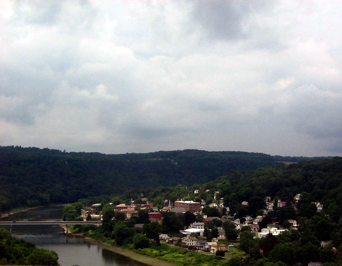 The borough of Emlenton and the Allegheny River from the Interstate 80 bridge, Pennsylvania, United States. Note: this was taken from a moving vehicle and the bridge wall was cropped out of the bottom of the image (it is illegal to stop on the bridge).